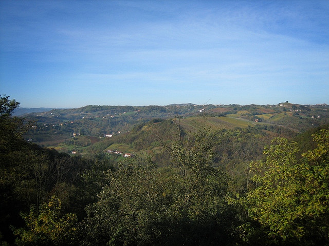 View of the Piedmont region around the commune of Acqui Terme